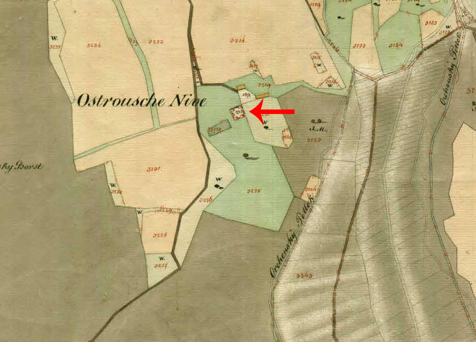 Franciscejski kataster za Kranjsko, 1823-1869